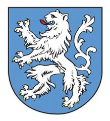 Municipal coat of arms of Mladá Boleslav city, Czech Republic.